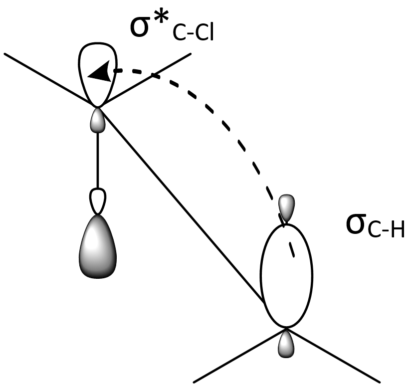 Bonding and anti-bonding orbitals line up in the anti-periplanar geometry